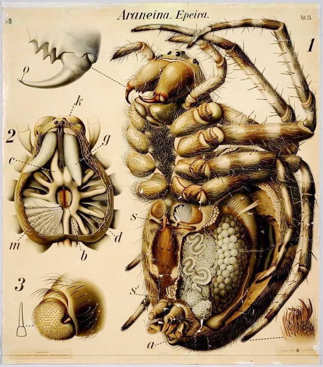 Dissection of the European garden spider Araneus diadematus (=Epeira diadema)